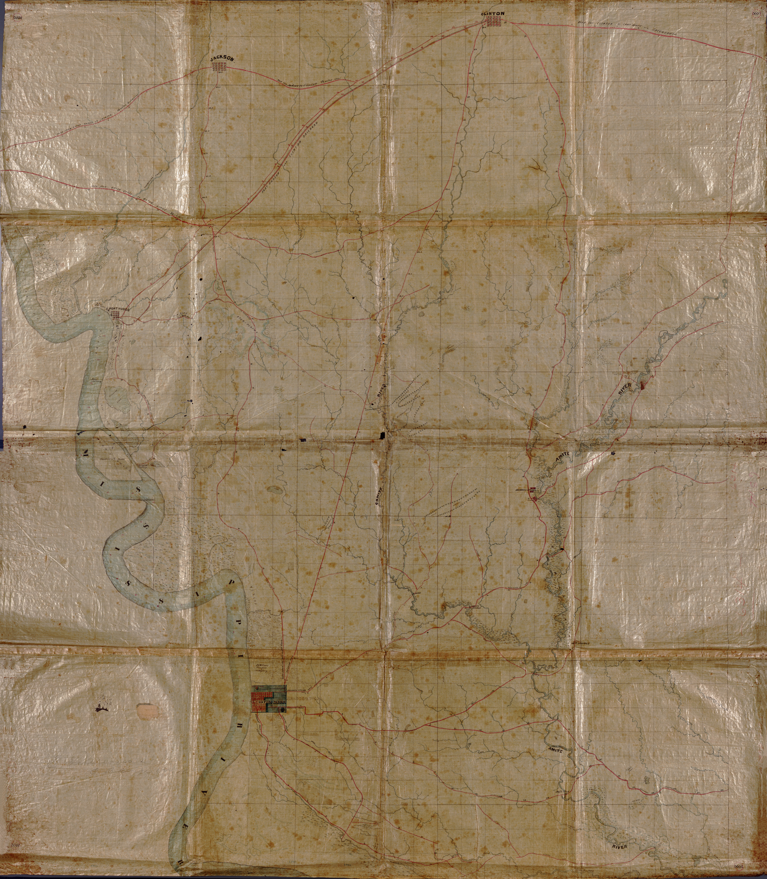 Map of the region east and north of Baton Rouge, showing batteries on the Mississippi north of Port Hudson